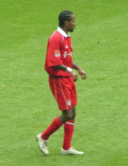 Zé Roberto (FC Bayern) whila a game against Arminia Bielefeld